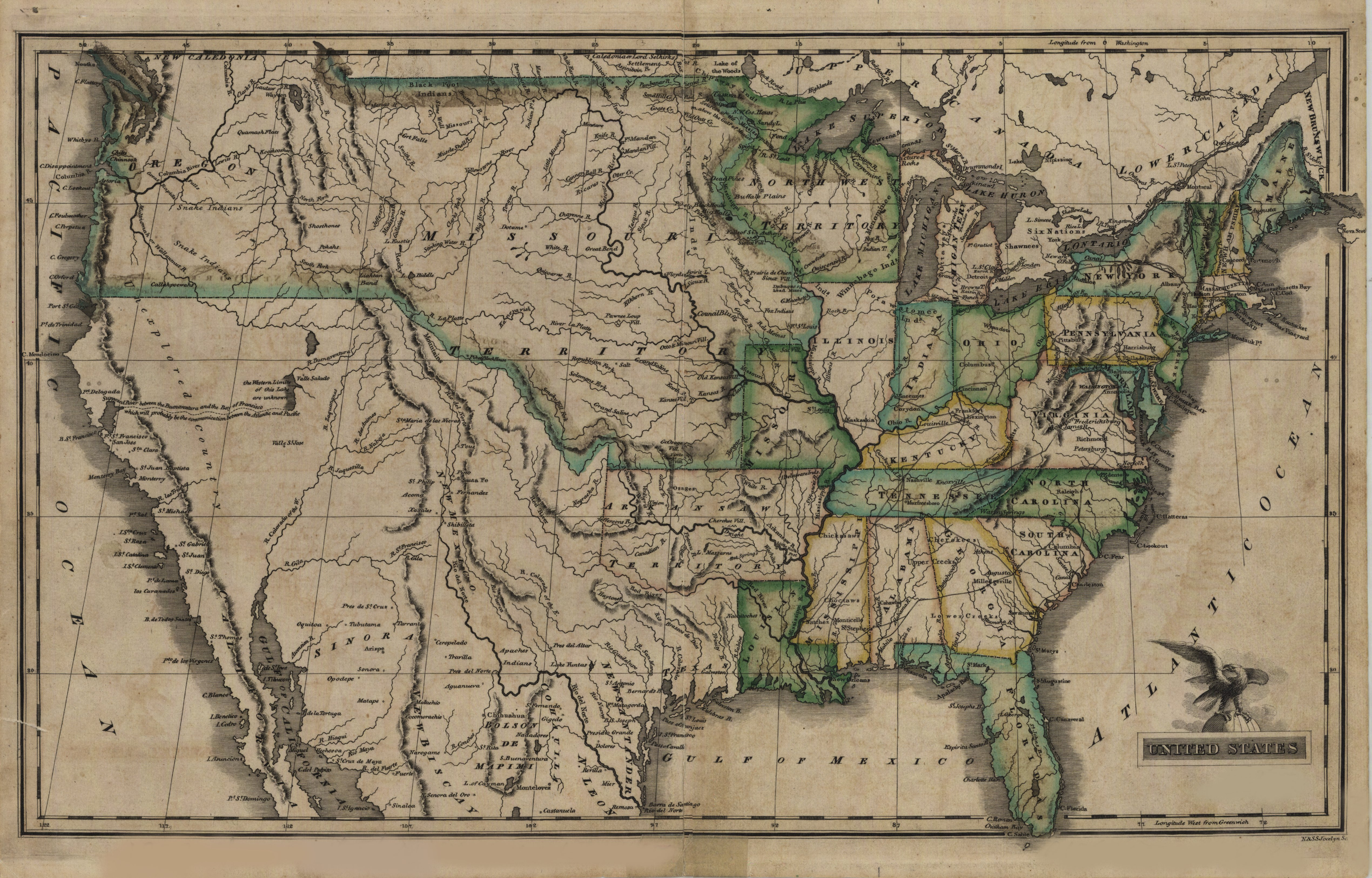 Map of the United States, from An Atlas of the United States, on an improved plan; consisting of ten maps, with a complete index to each, and a general map of the whole country. By Sidney E. Morse, A.M. New-Haven: engraved and published by N. & S.S. Jocelyn. 1823 - Size: 24 x 42 cm - Engraved map. Outline hand color. Relief is shown by hachures. Prime meridians: Washington and Greenwich - Scale 1: 11,300,000 (approx.)